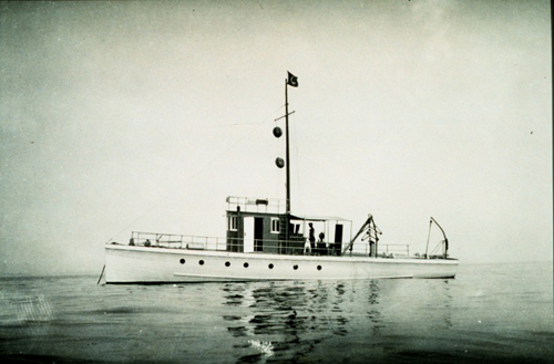 United States Coast and Geodetic Survey survey launch USC&GS Ogden conducting current surveys in Boston Harbor off Boston, Massachusetts